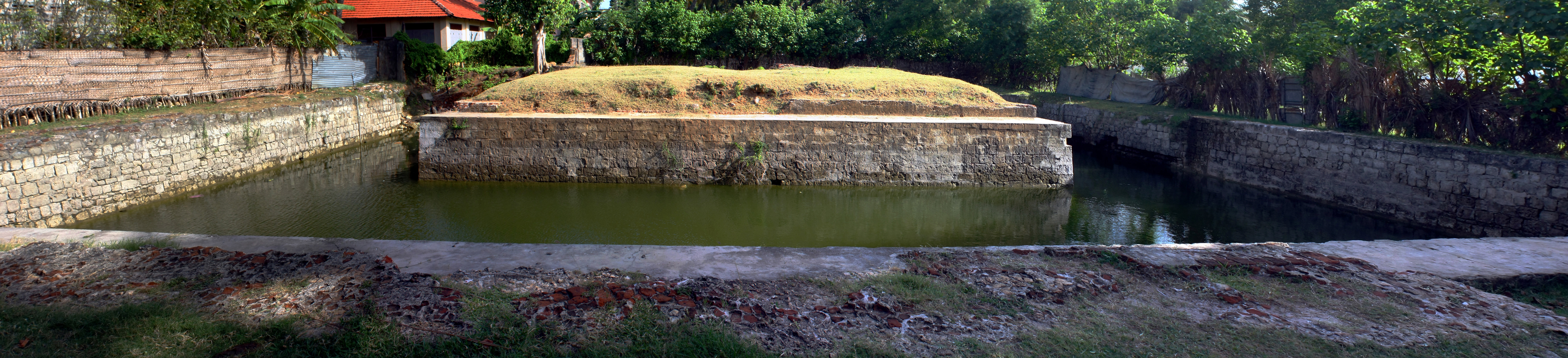 Yamuna Eri in Jaffna